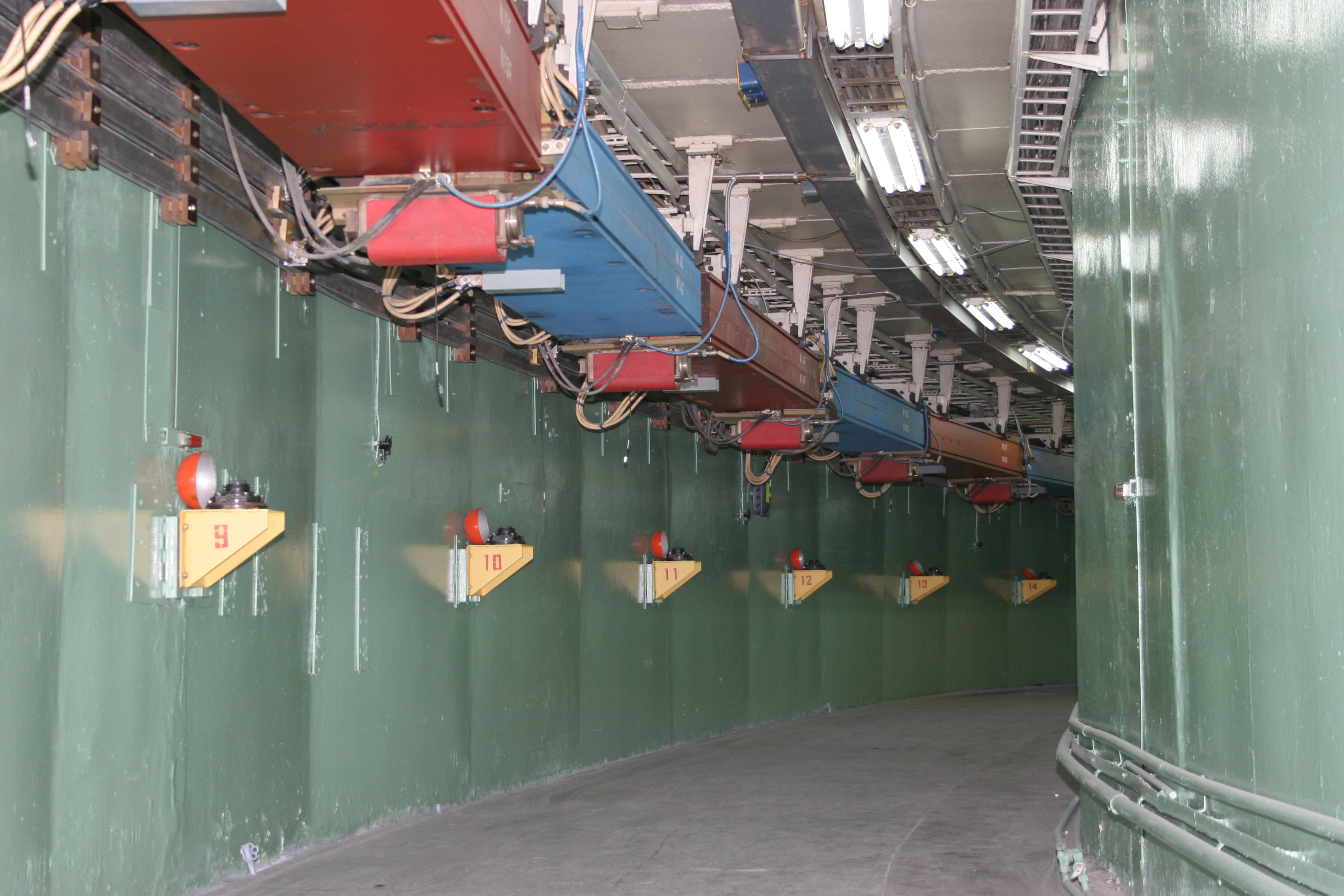 Photo of the VEPP-4 electron-positron collider